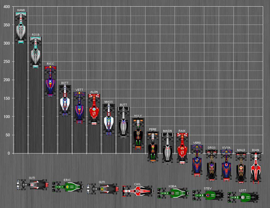 chart of final standings of the 2014 Formula One season